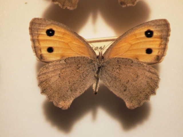 Hyponephele lycaon, mounted.